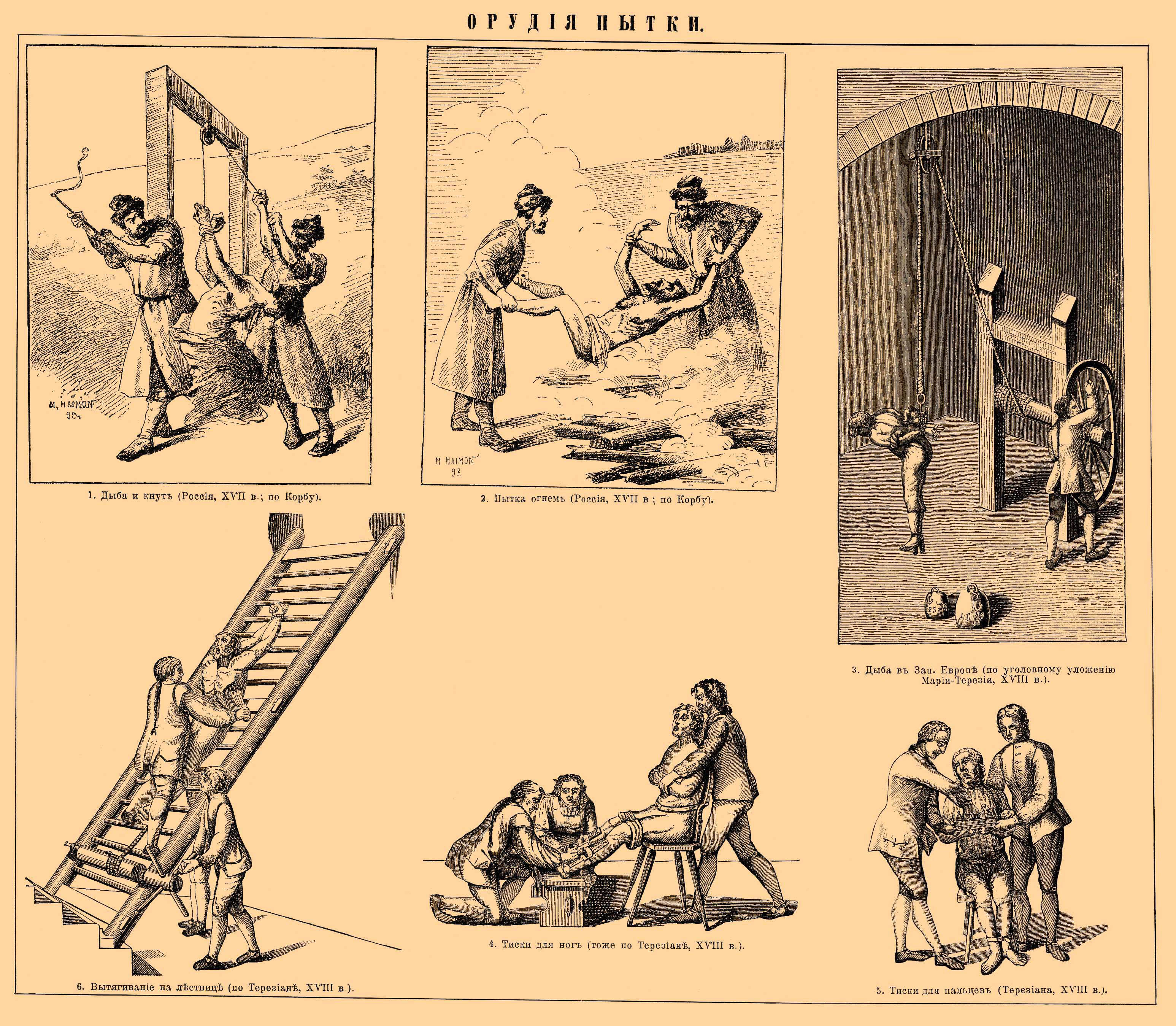 Illustration from Brockhaus and Efron Encyclopedic Dictionary (1890—1907)